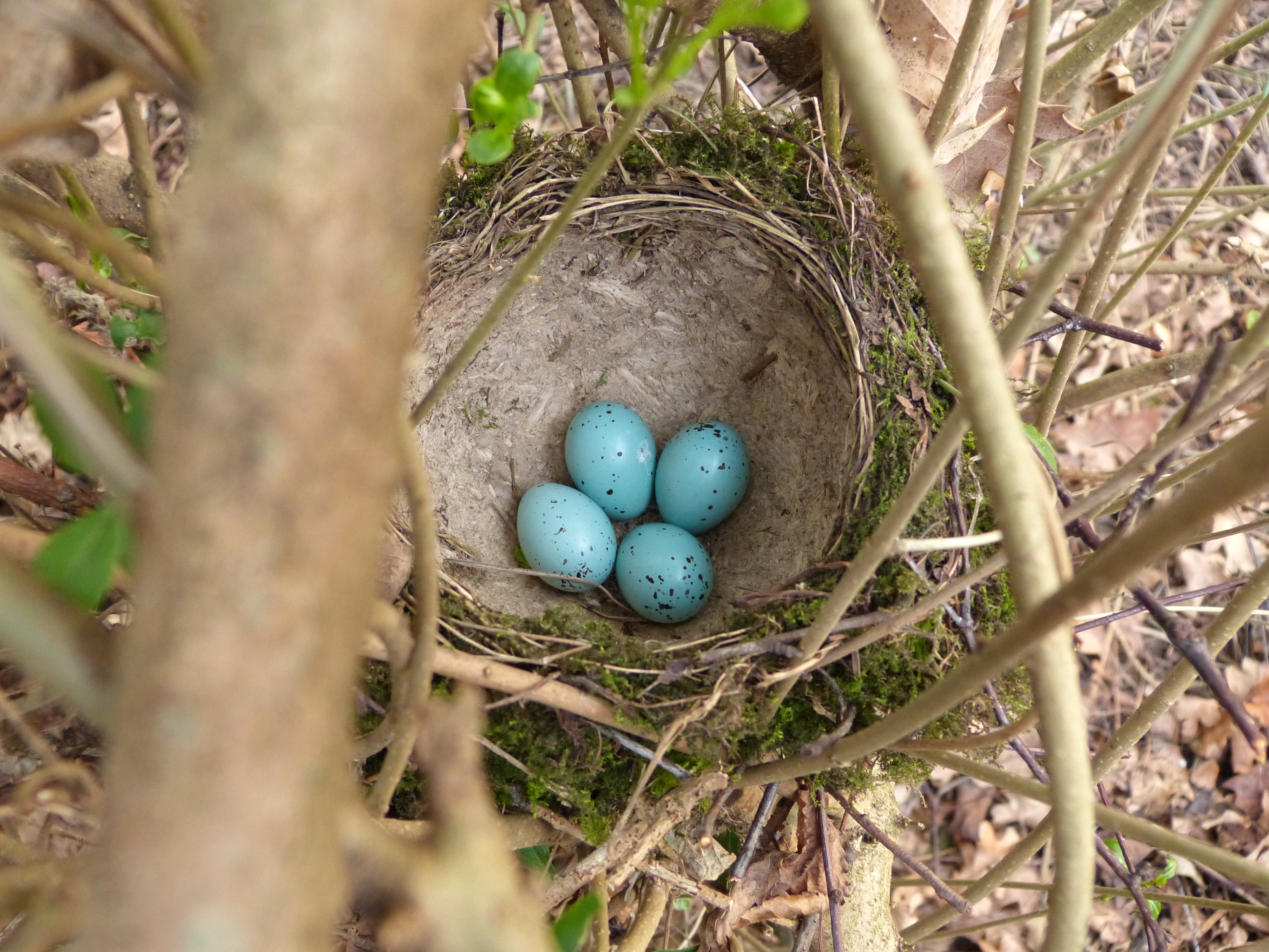 Latin name Turdus philomelos Family Chats and thrushes (Turdidae) Overview A familiar and popular garden songbird whose numbers are declining seriously,... Where to see them ... When to see them All year round. What they eat Worms, snails and fruit.